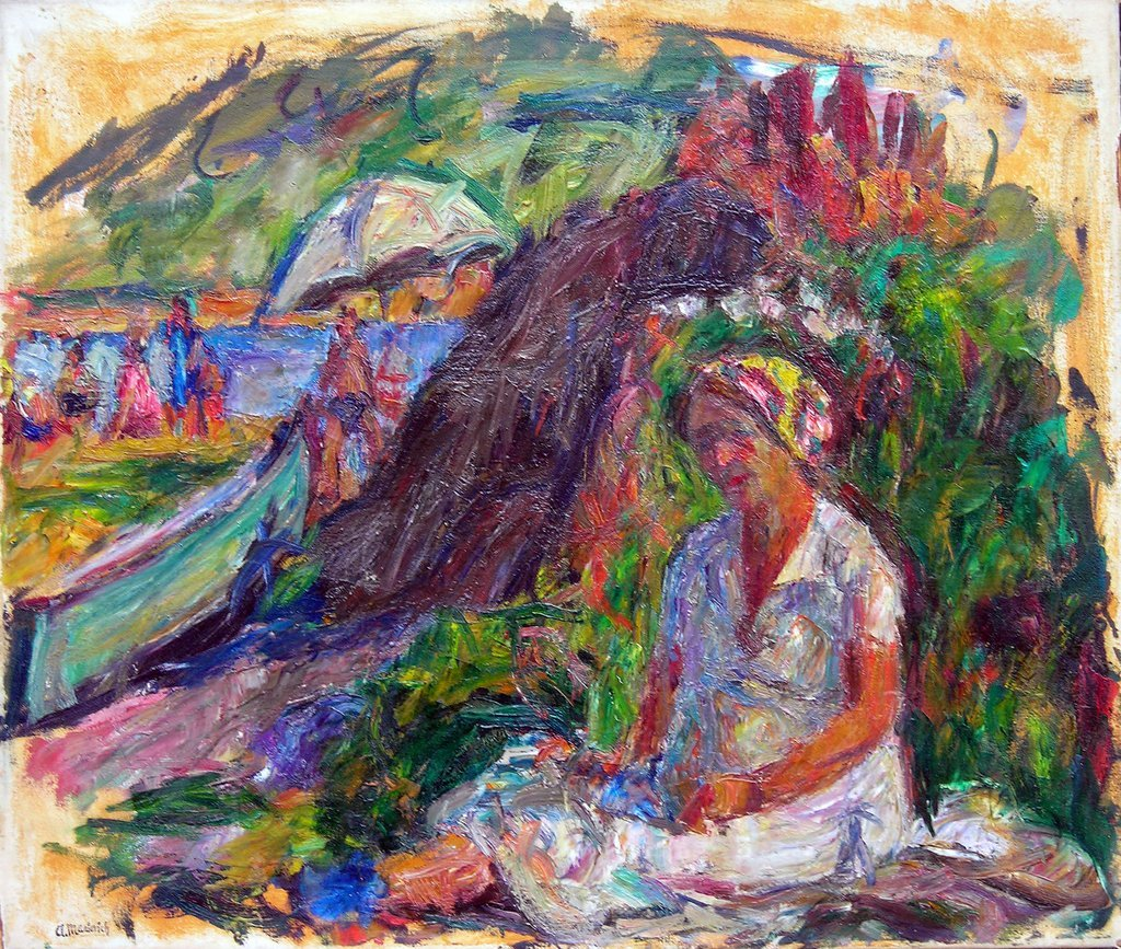 Oil on canvas, 24" x 28"